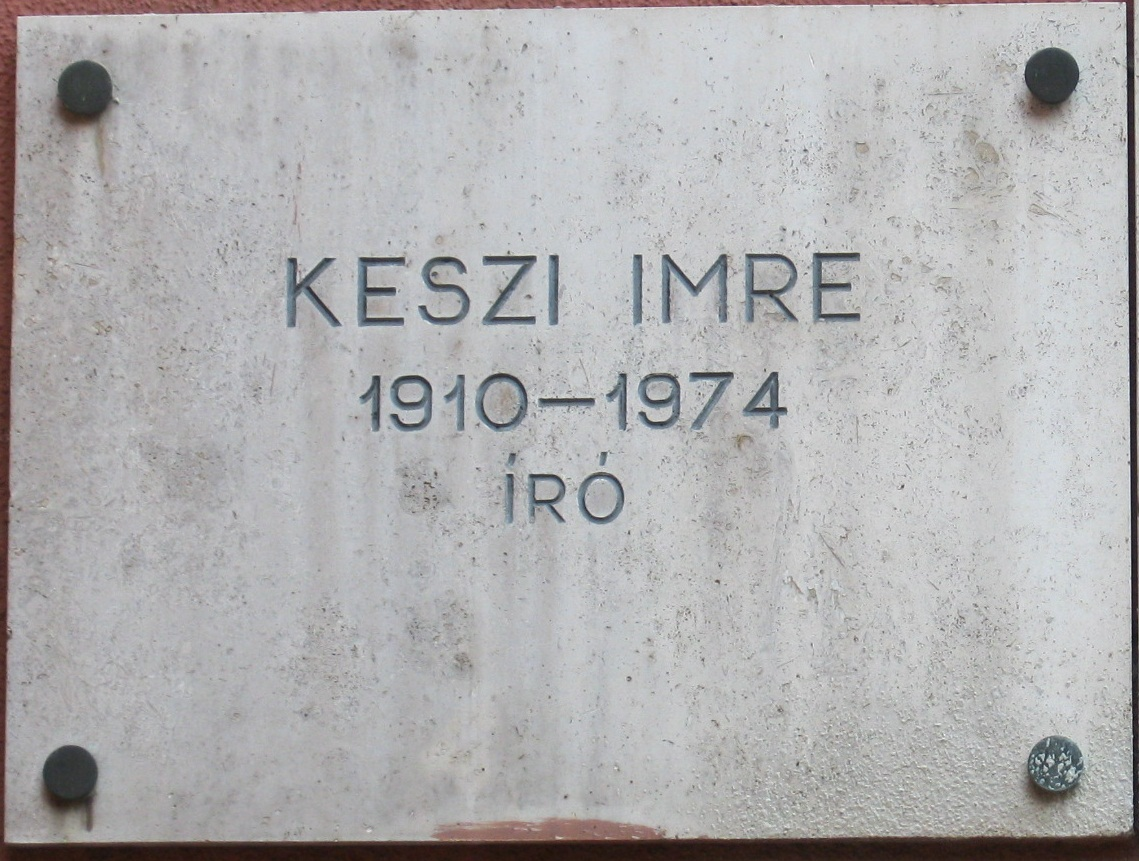 Imre Keszi commemorative plaque in Budapest District XIV, Stefánia Street No 61